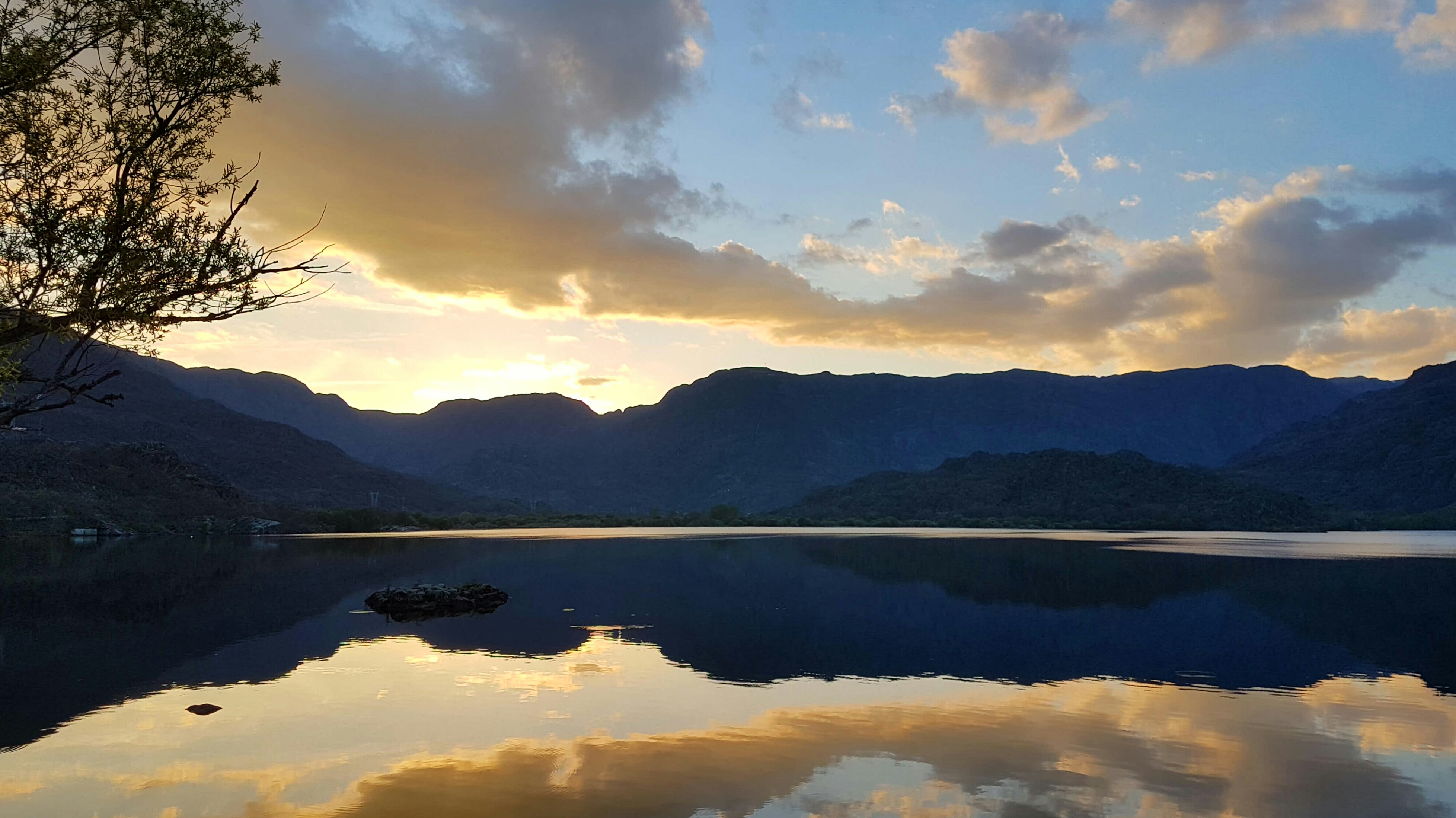 Lake located in Sanabria, Zamora, Spain